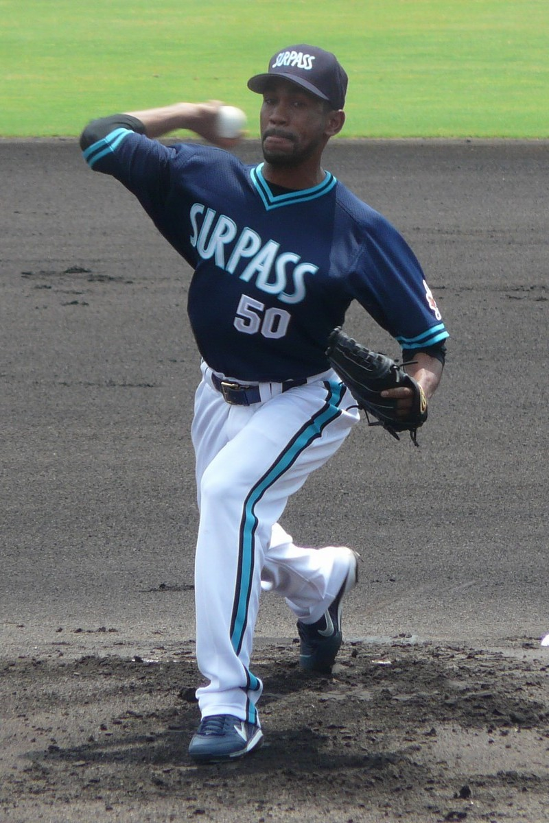 Ramón Ortiz, pitcher of the Surpass, at Hanshin Naruohama Baseball Ground.